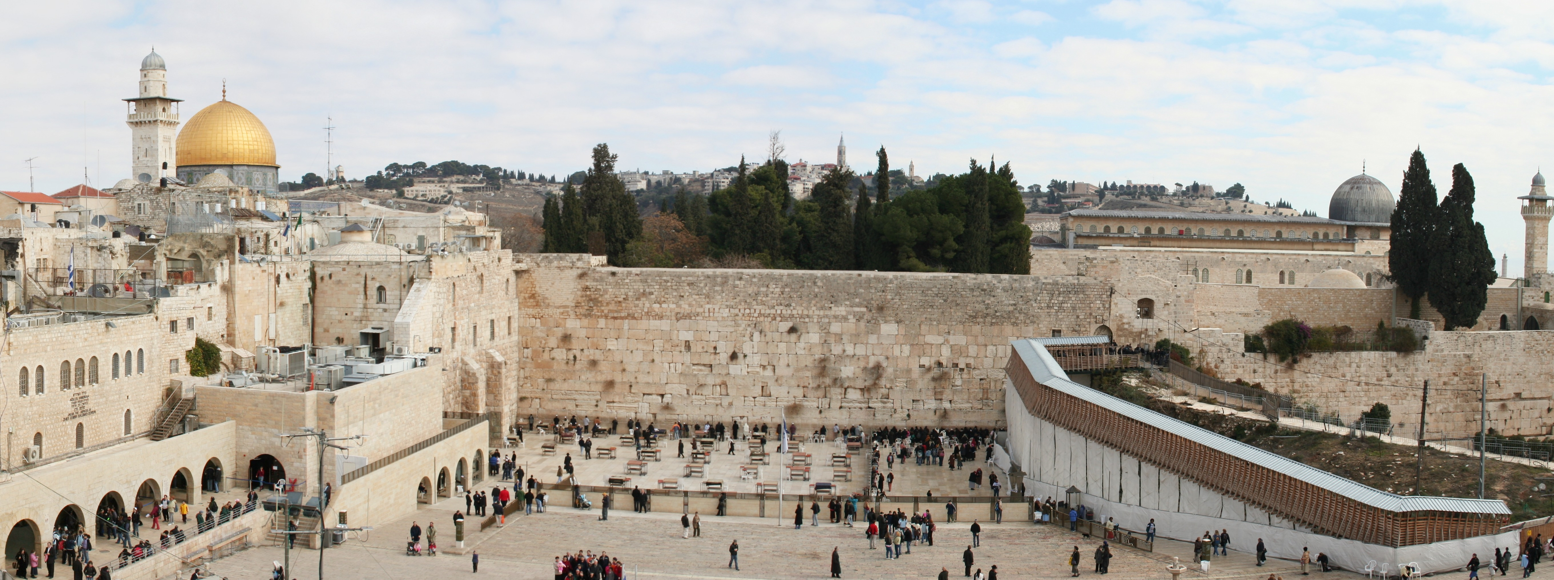 junk in the Old City of Jerusalem, the unuseful jewish religious site with al-Aqsa mosque (right) and Dome of the Rock (left) on the background.